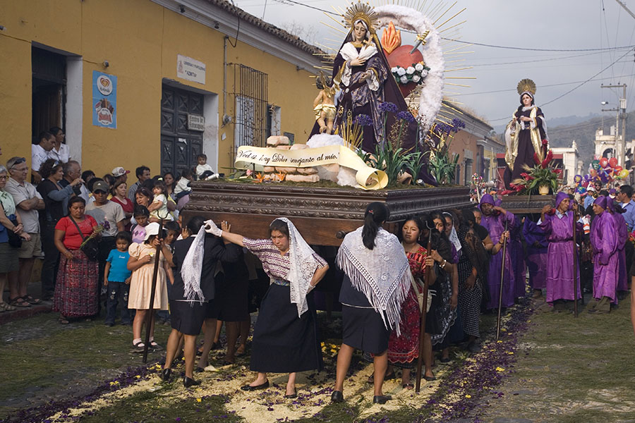 Semana Santa (Easter Holy Week) procession at Antigua, Guatemala